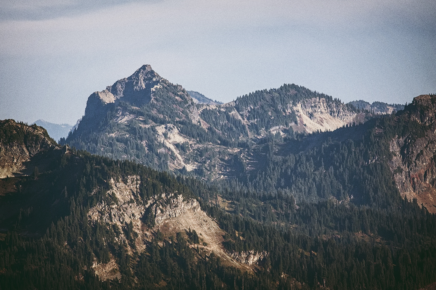 Seymour Peak, Washington